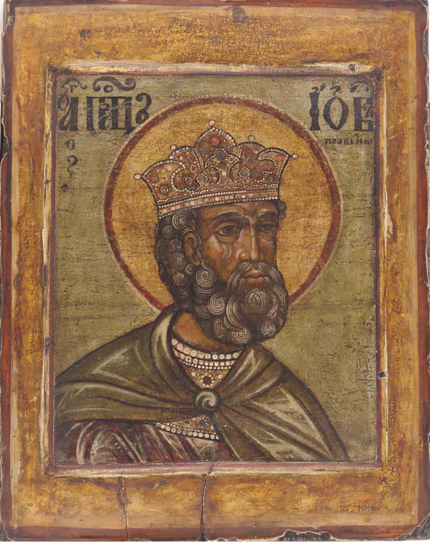 THE OLD TESTAMENT PATRIARCH JOB NORTHERN RUSSIA, LATE XVII CENTURY, 55.7 by 43.6 cm. 60,000-80,000 GBP